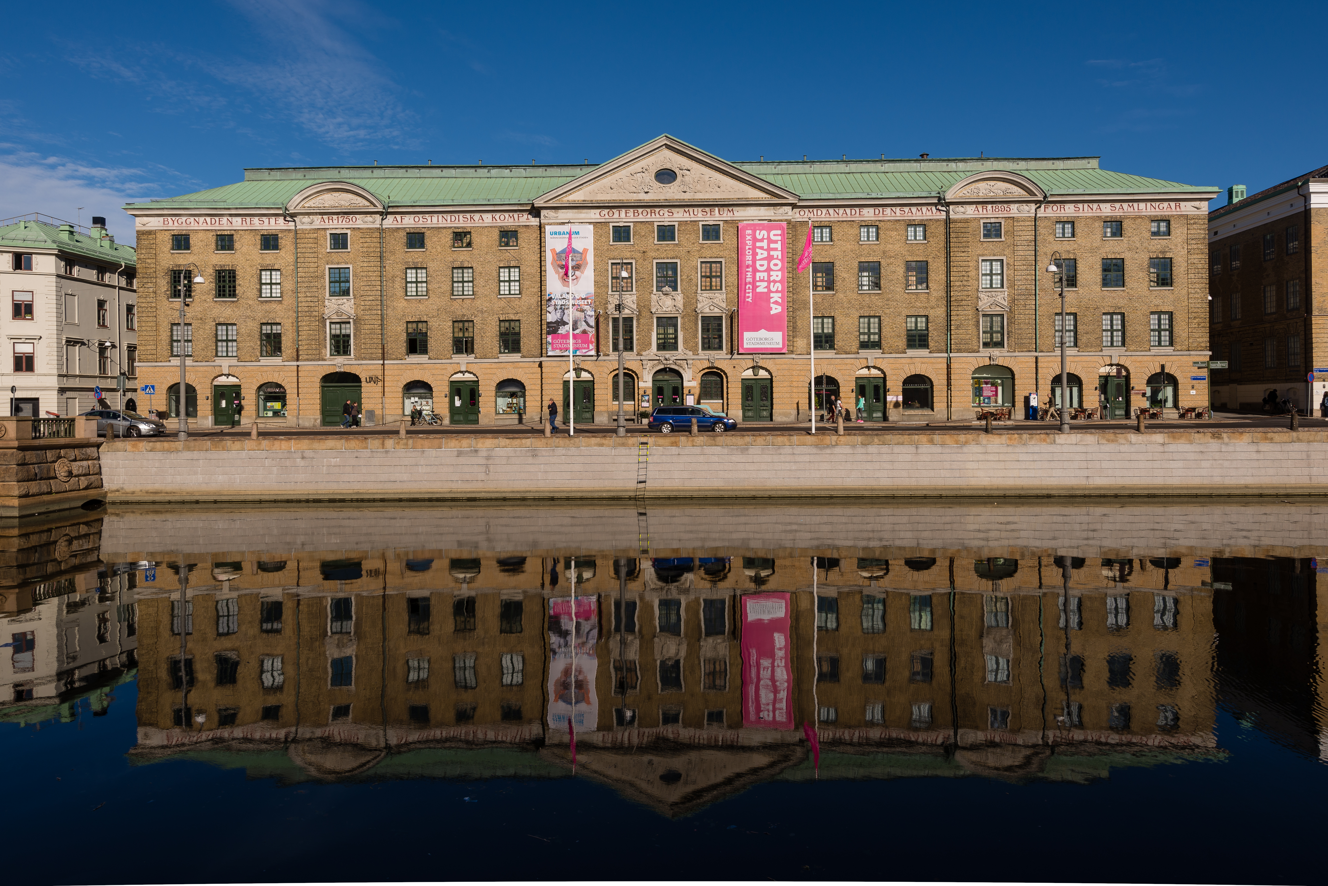 The City Museum of Gothenburg. Located in an eighteenth century house (know as Ostindiska huset, East India building) originally built for the Swedish East India Company.